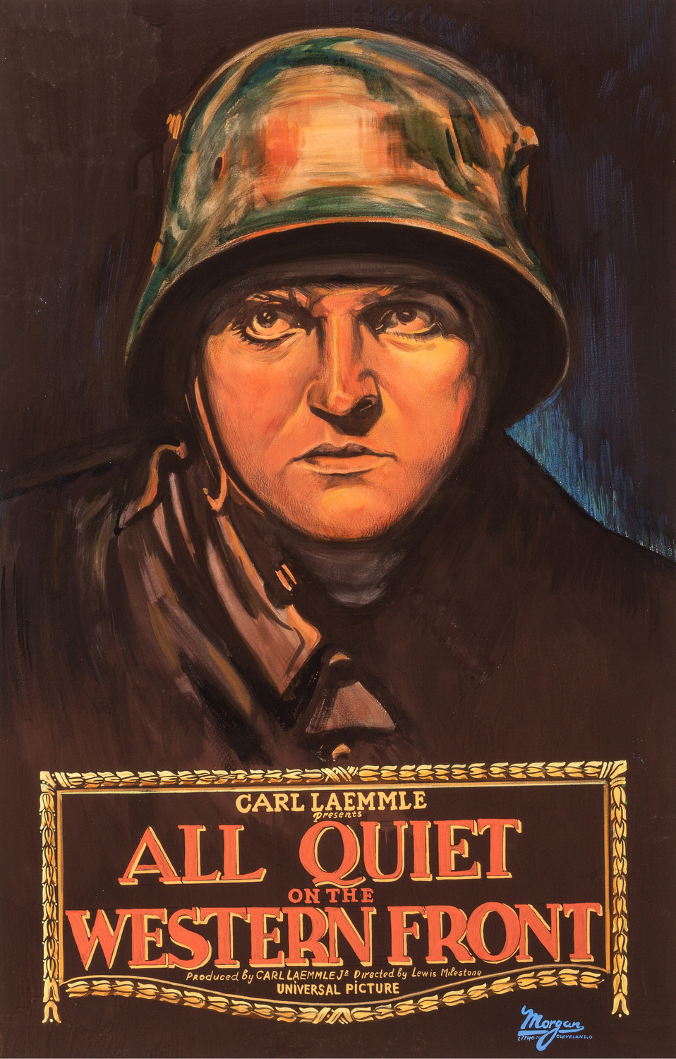 Poster for the 1930 film All Quiet on the Western Front. The item has no copyright markings on it as can be seen in the links above. At lower right is a logo for the Morgan Litho Company--they printed the poster-and numbers which likely related to the poster print job.. At lower left is Country of origin USA.